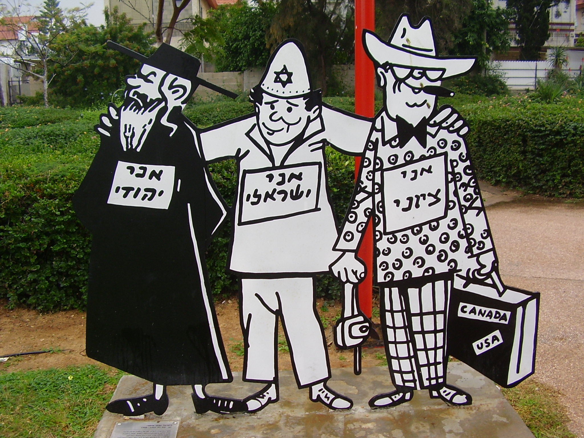 Israeli Cartoon Museum in Holon